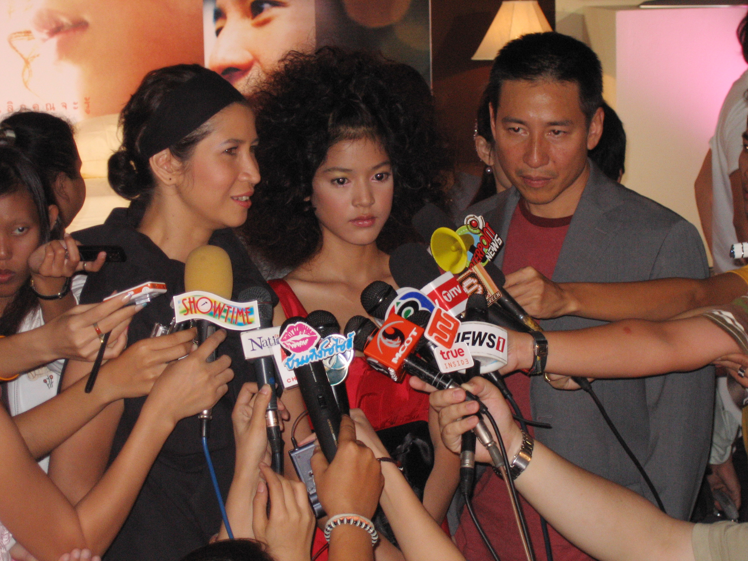 From left, Thai actors Lalita Panyopas, Apinya Sakuljaroensuk and Pornwut Sarasin, stars of the 2007 film Ploy, talk to the press at the Thai press preview at SF World in CentralWorld, Bangkok. Directed by Pen-Ek Ratanruang, Ploy premiered during the Director's Fortnight at the 2007 Cannes Film Festival. It was set to open in Thailand on June 7.